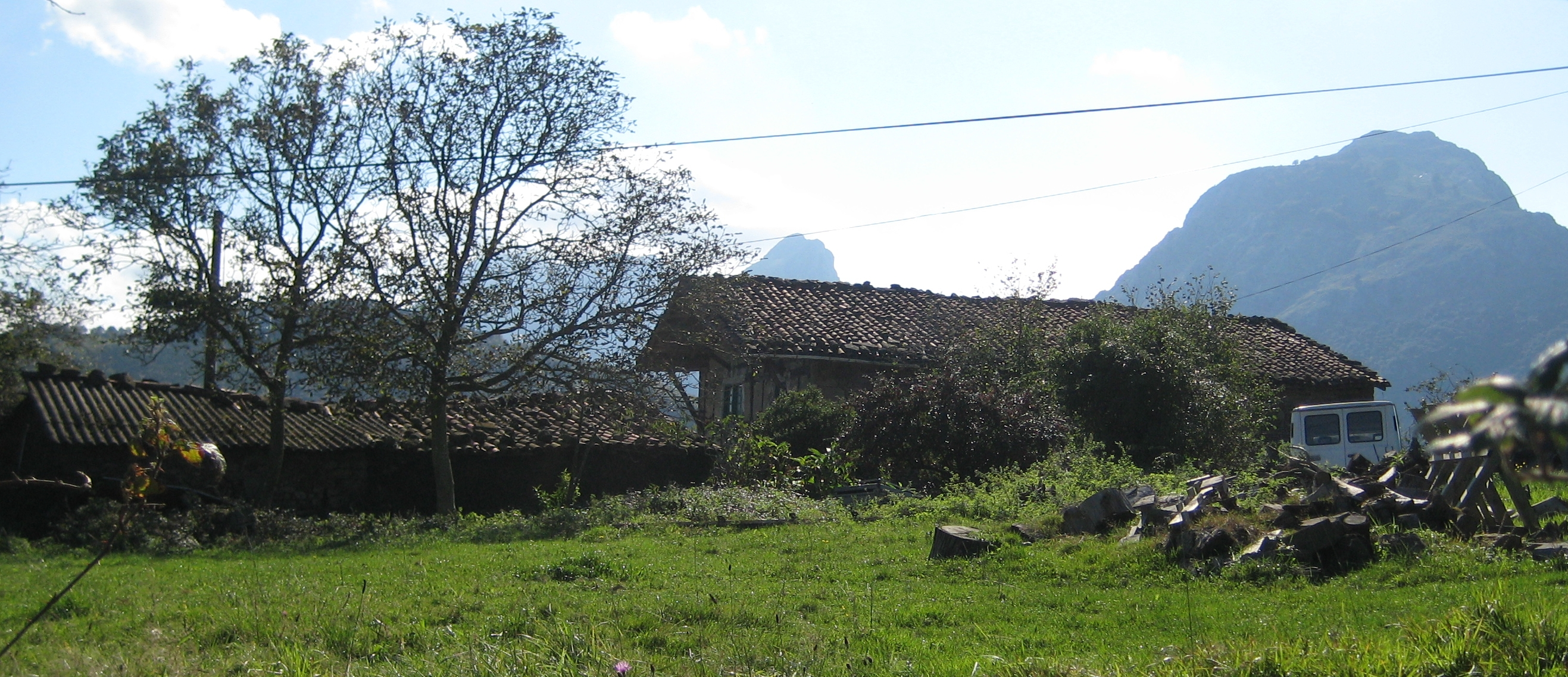 Goienengoa farmhouse and field where Saint George's hermit is supposed to have been laid, Bitaño, Izurtza, Biscay.